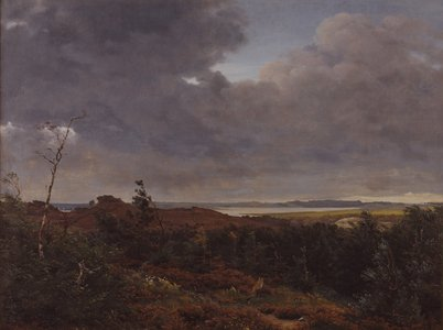 Udsigt mod Frederiksværk fra Tisvilde Skov; Blick auf Frederiksværk vom Tisvilde-Wald; View to Frederiksværk from Tisvilde forrest)